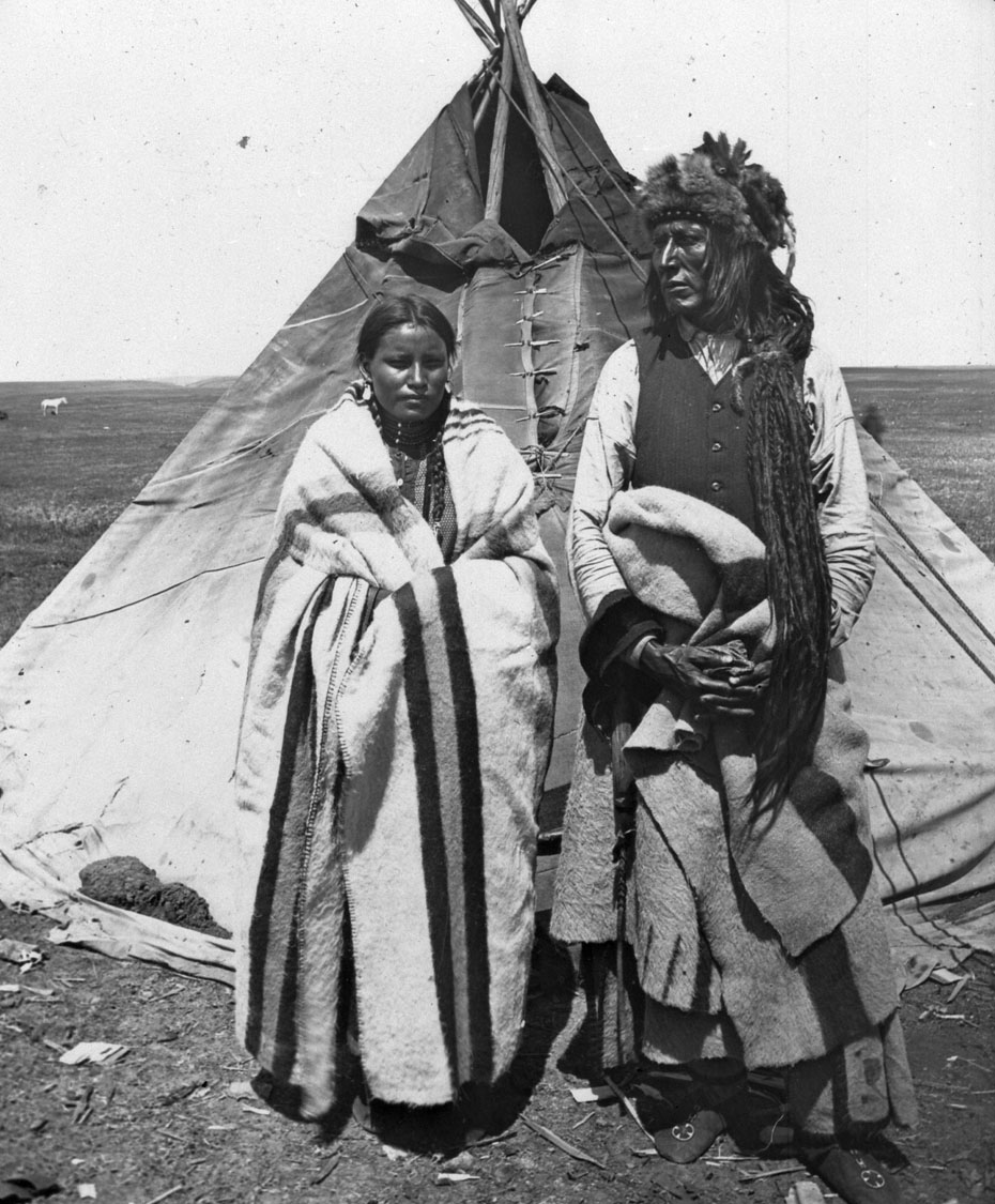 Pîhtokahanapiwiyin (Poundmaker) with his 4th wife